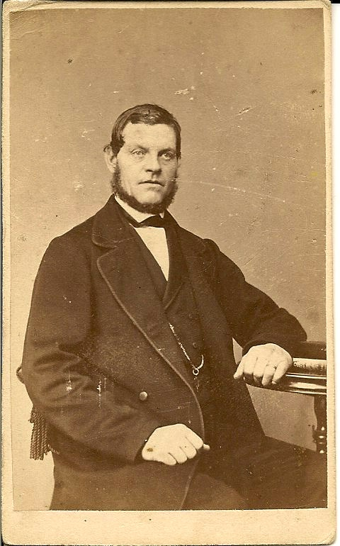 Swedish politician from late nineteenth century